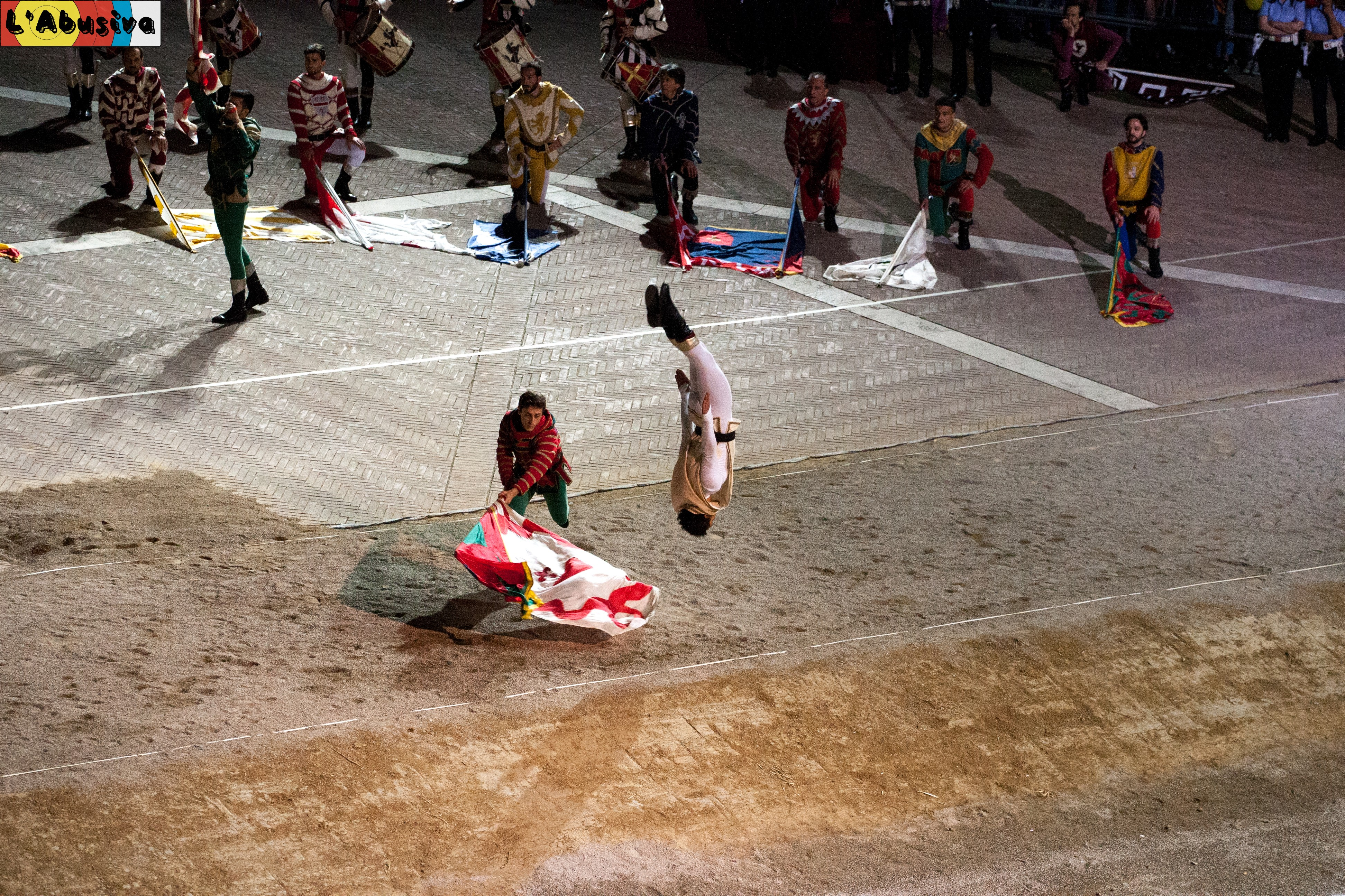 the skirmish